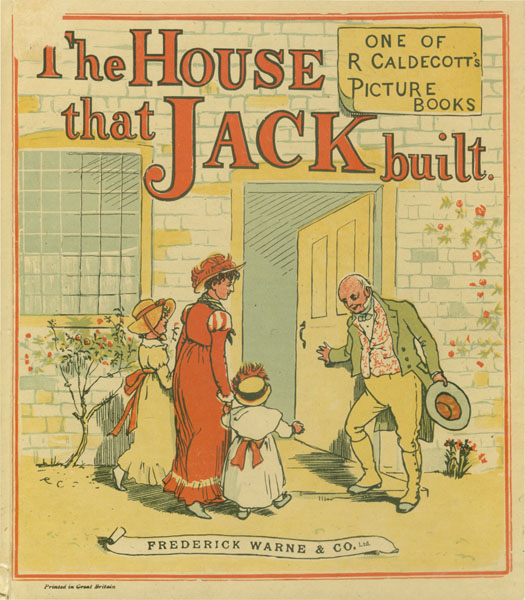 This Is the House That Jack Built - illustrated book cover